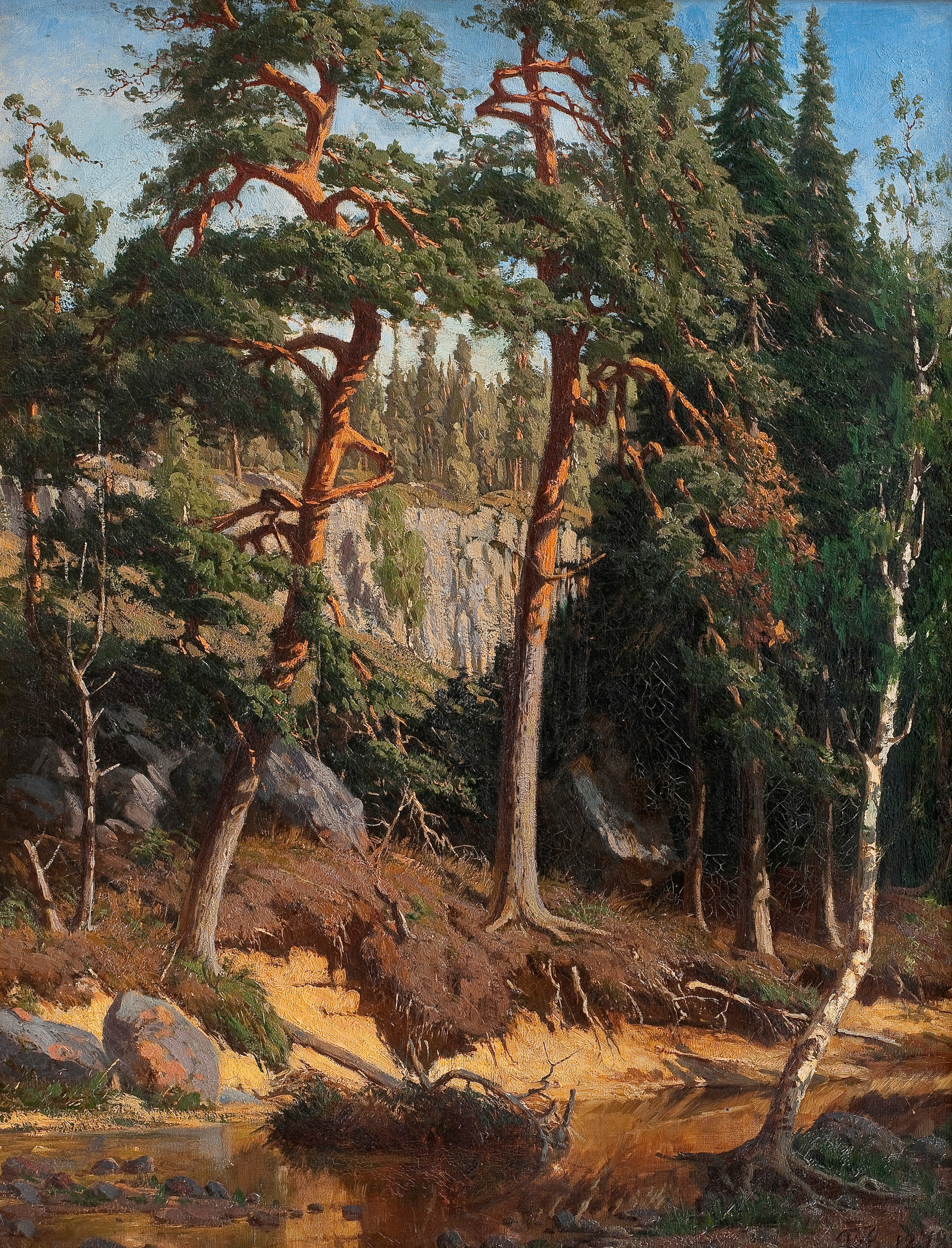 CHURBERG Fanny In the forest, 1878 I skogen. Oil on canvas, 75x57 cm